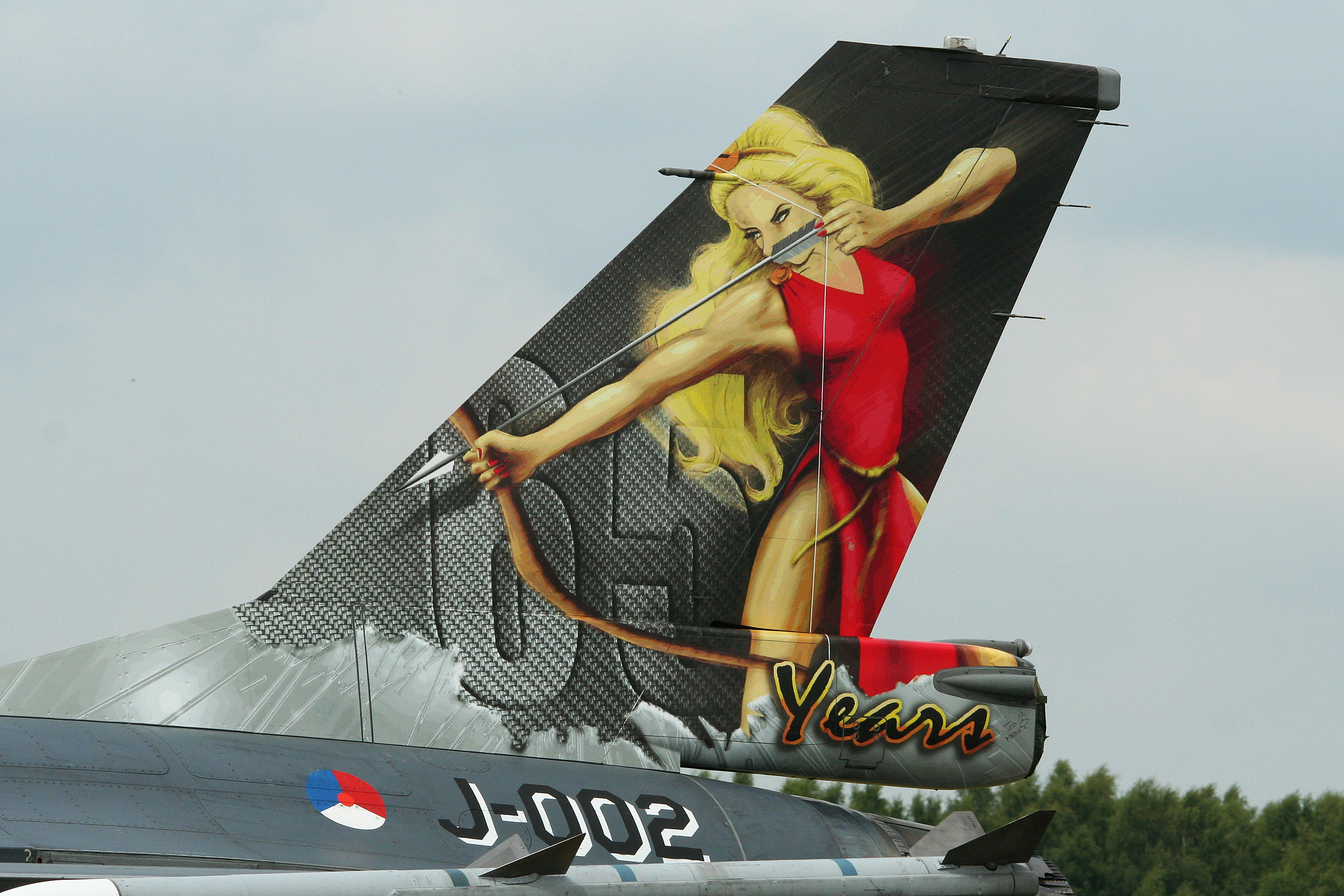 Detail shot of the special anniversary tail markings on this RNthAF F-16. The scheme was applied for the 65th anniversary of 323sqn. c/n 6D-158. Seen parked on the main flightline / static line at the '100th Anniversary of Dutch military aviation'. Volkel Airbase, Netherlands. 14-6-2013